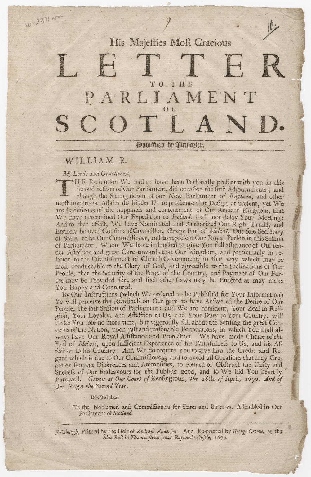 "His Majesties Most Gracious Letter to the Parliament of Scotland," broadside, 1690, "printed by the heir of Andrew Anderson and reprinted by George Croom, at the Blue-Ball in Thames-Street near Baynards-Castle." Announcement of the appointment of George Melville, 1st Earl of Melville, as commissioner to the Parliament of Scotland. Broadside printed first at Edinburgh.[1]